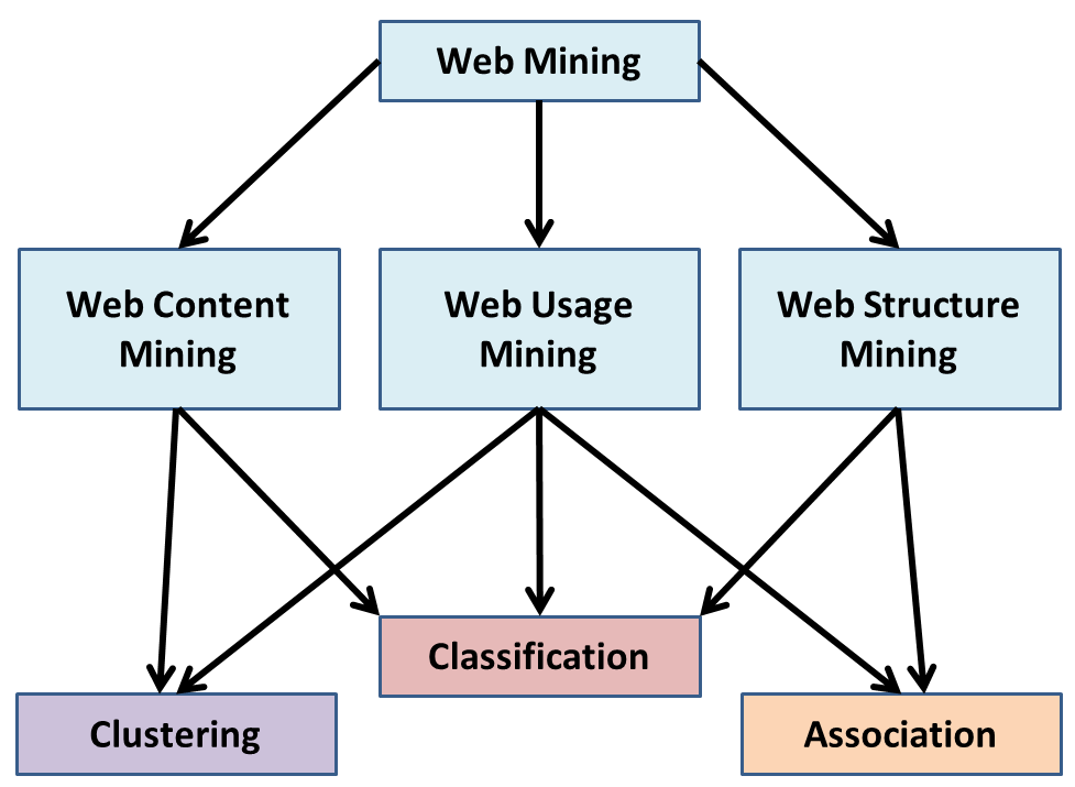 The general relationship between the categories of Web Mining and objectives of Data Mining